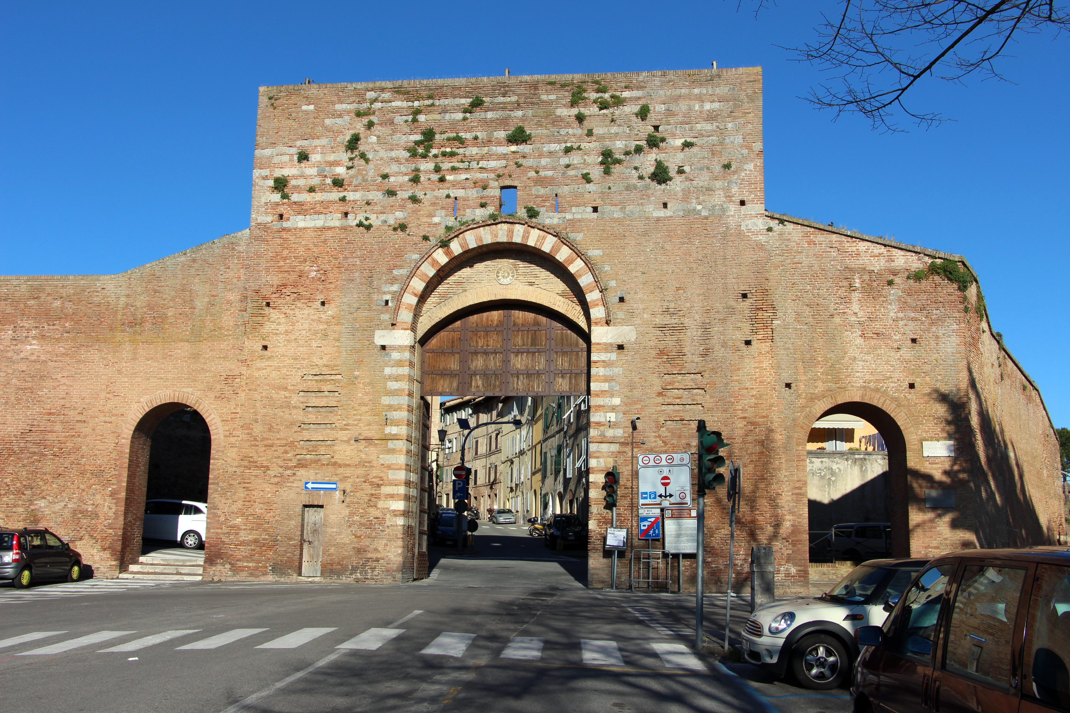 City gates in Siena